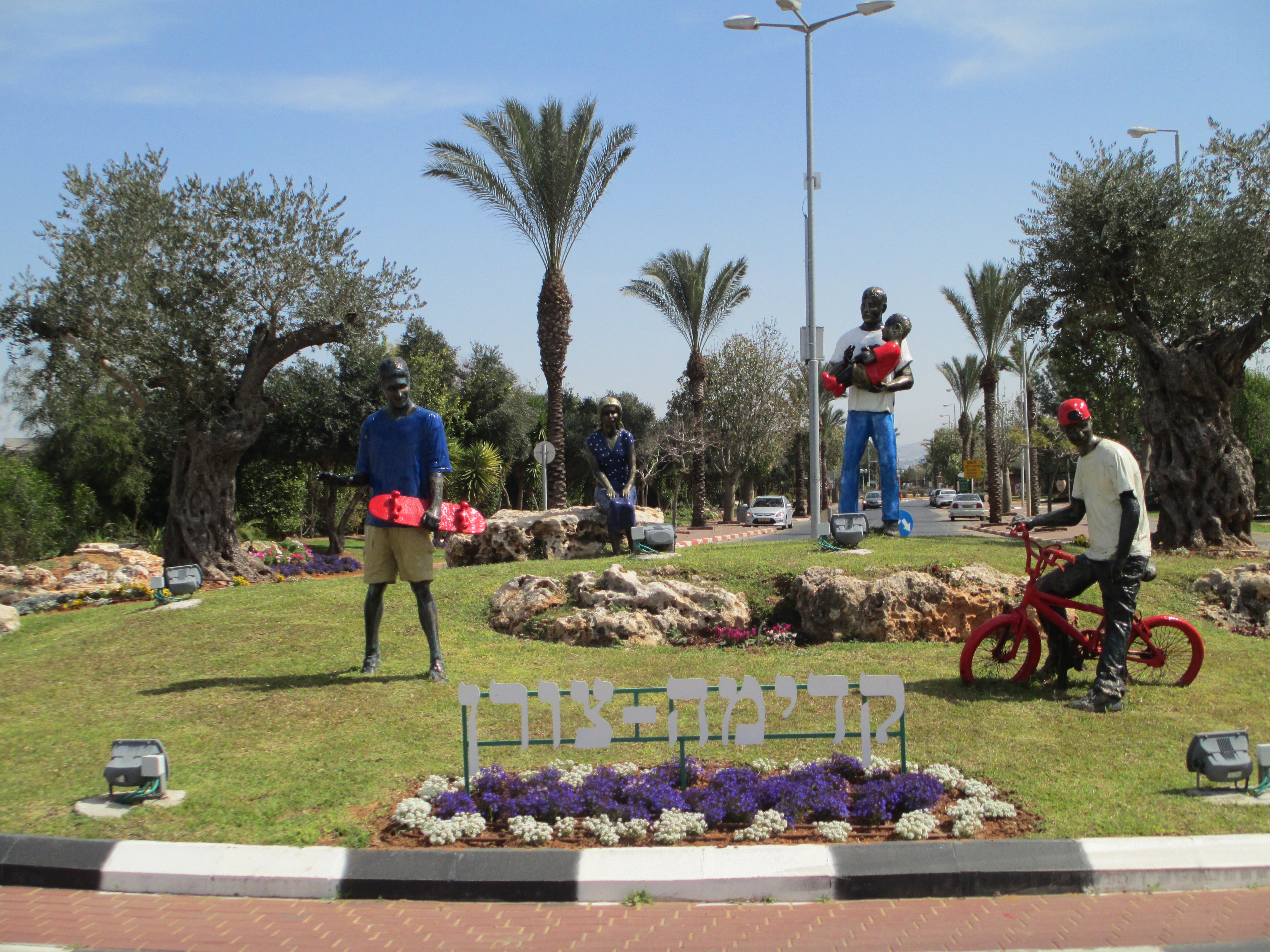 Entrance square to Zoran